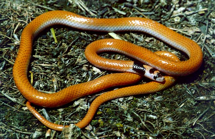 Adult male Rhynchocalamus melanocephalus satuniny from Jrvezh village, Armenia